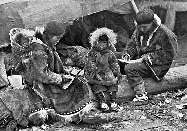 AN ESKIMO FAMILY. Tenderness and responsibility in their treatment of children is a virtue of the Eskimo which binds them closer to the brotherhood of civilized peoples than their skill at carving or with the needle.